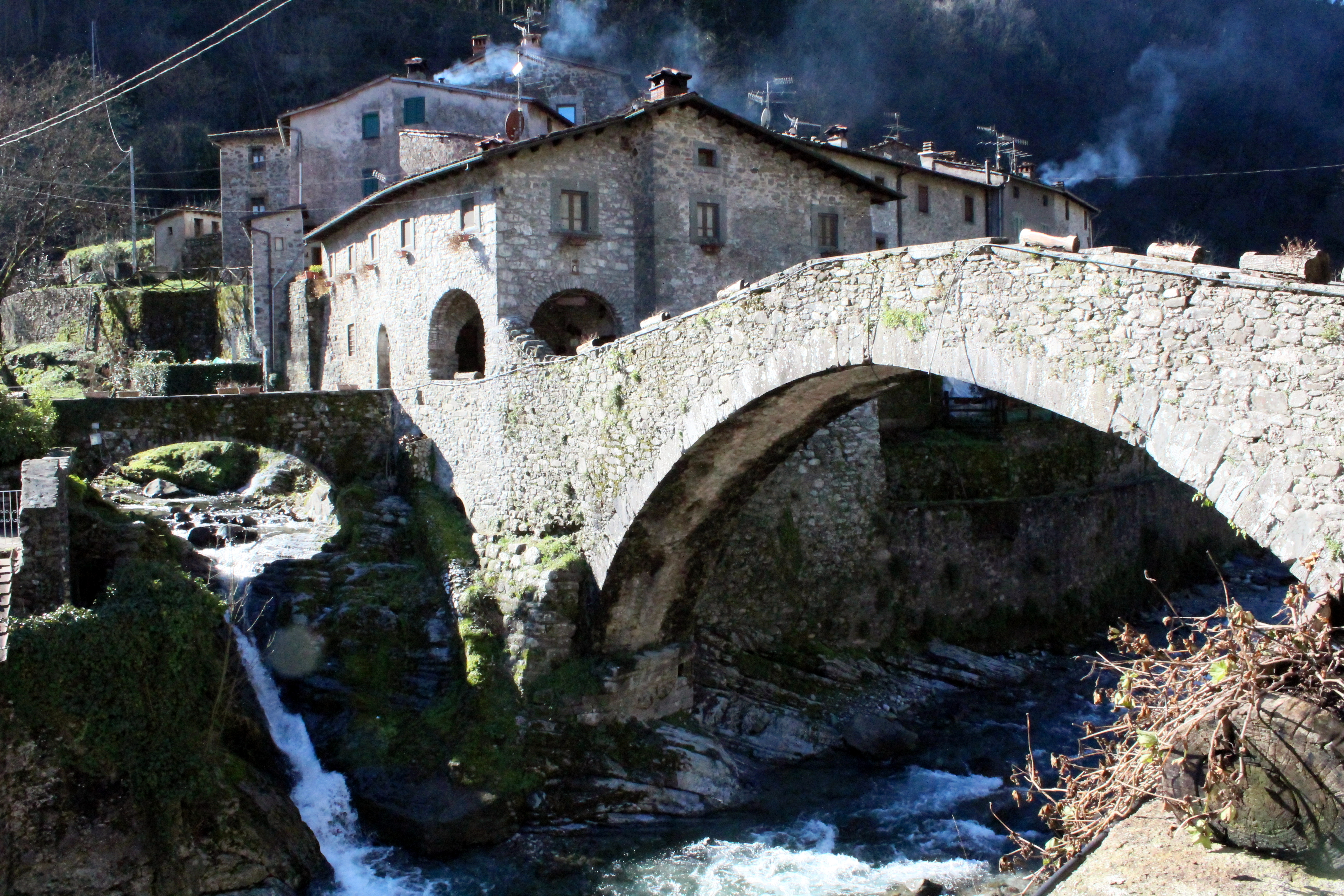 14th Century Bridge Ponte della Dogana over the Turrite Cava River in Fabbriche di Vallico, hamlet of Fabbriche di Vergemoli, Province of Lucca, Tuscany, Italy